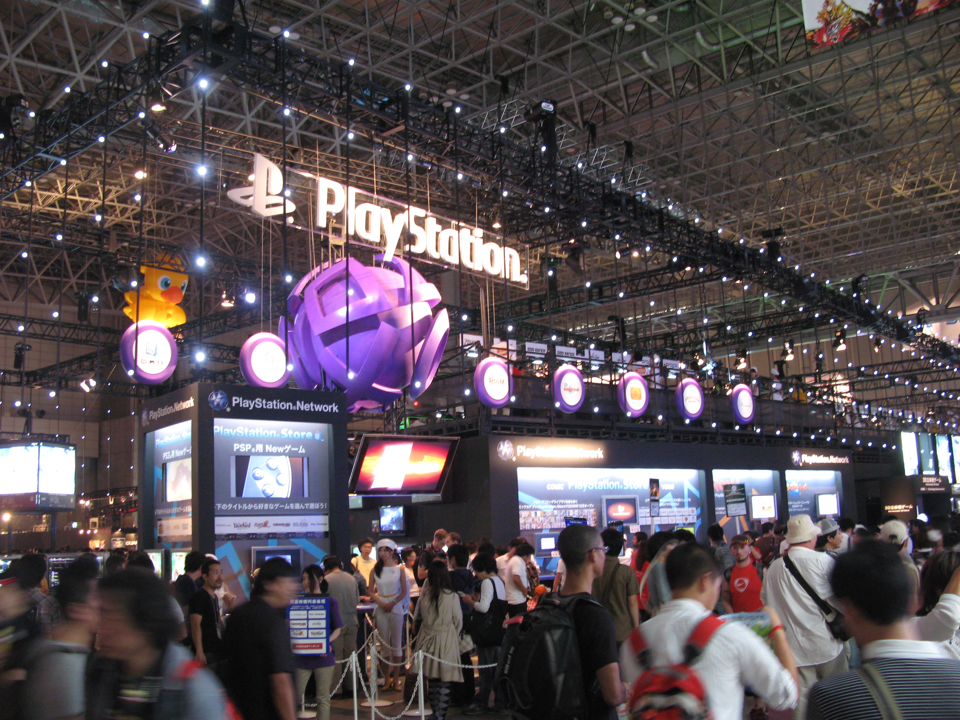 中文（台灣）: 2009東京電玩展，PlayStation攤位。